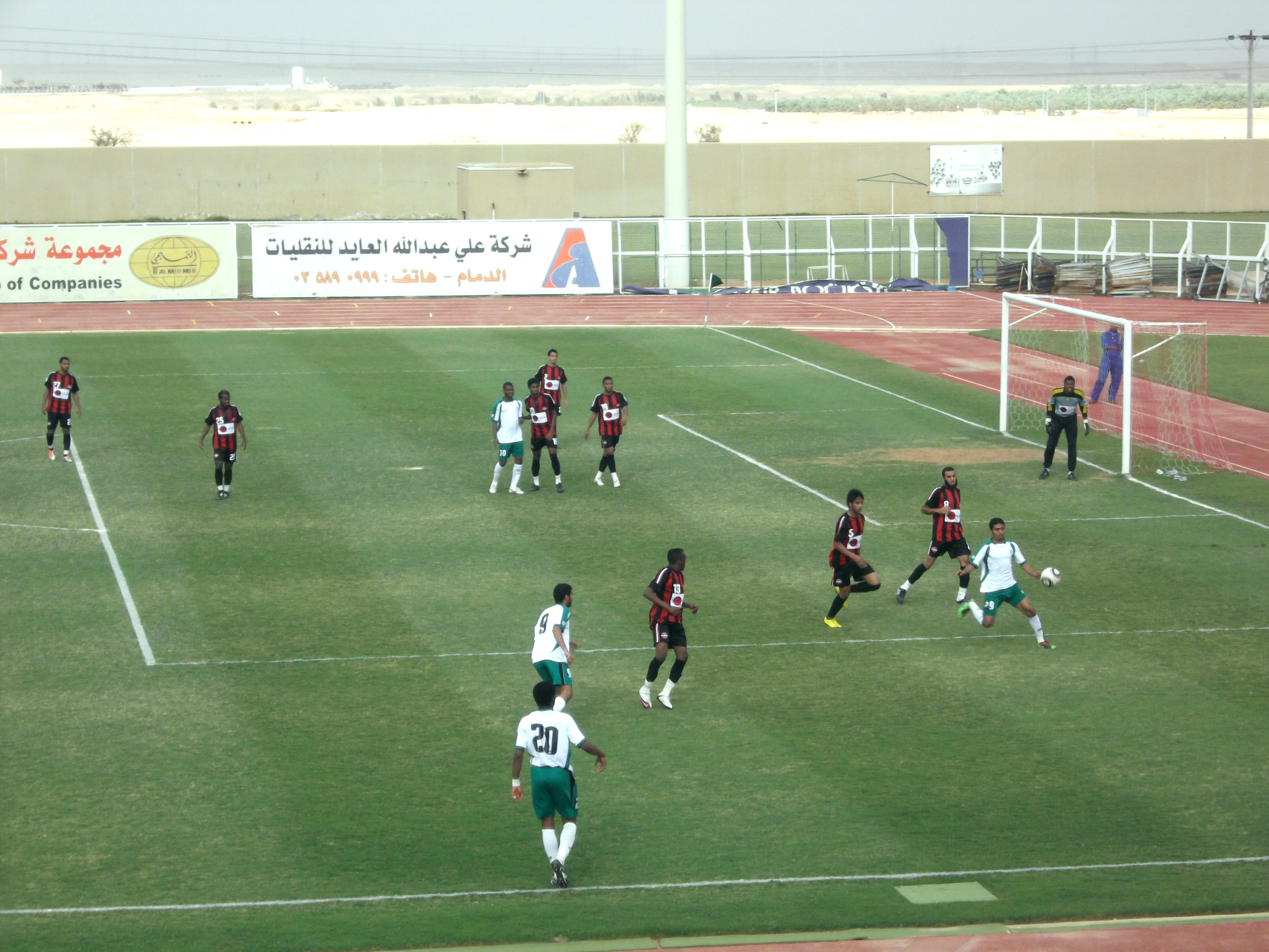 Match between Al-Najma and Al-Riyadh - Saudi First Division 2010-2011